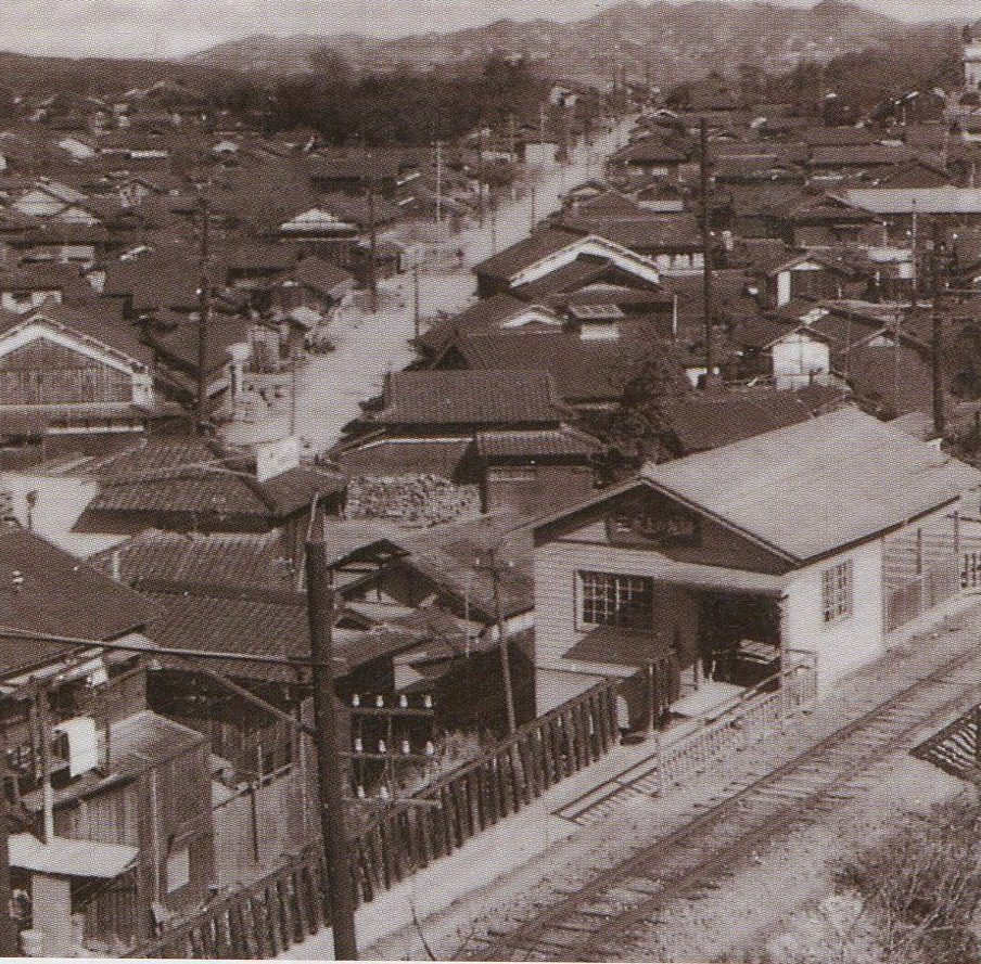 Shintetsu Uenomaru station in before 1955